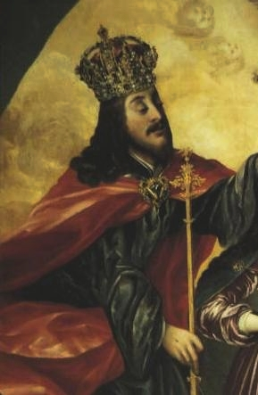 King Władysław IV depicted as Christ the King, detail of a painting Coronation of the Virgin Mary.